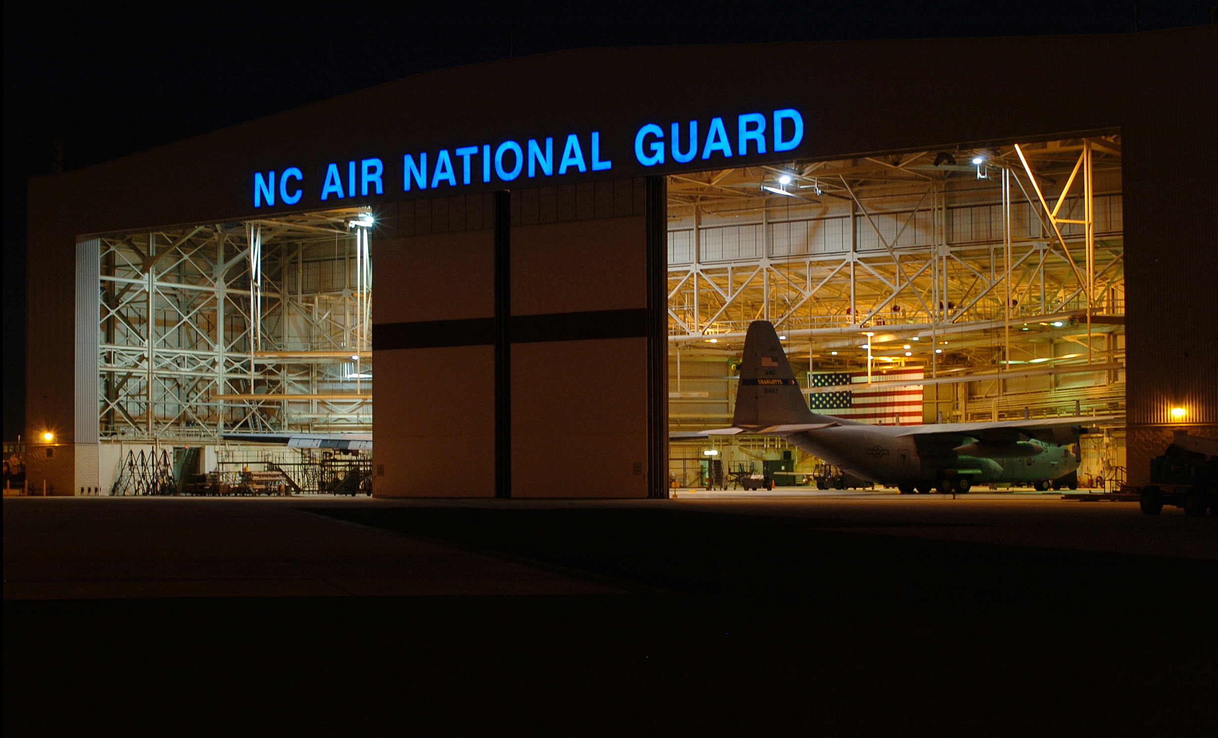 C-130 Hercules Cargo aircraft equipped with the Modular Airborne Fire Fighting System undergo maintenance Oct. 23, 2007, at the main hanger at the 145th Airlift Wing in Charlotte, N.C. The North Carolina Air National Guard will deploy three C-130 cargo aircraft, flight crews and support personnel to Port Hueneme/Channel Islands, Calif., to assist the U.S. Forest Service in firefighting efforts to contain, control, and extinguish wild fires.